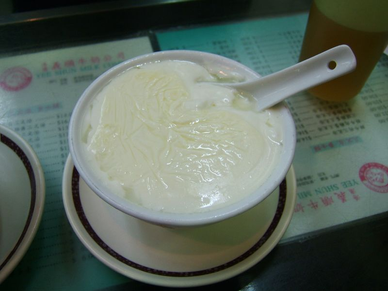 Steamed milk desert